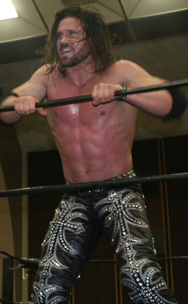 John Morrison vs Jason Kincaid